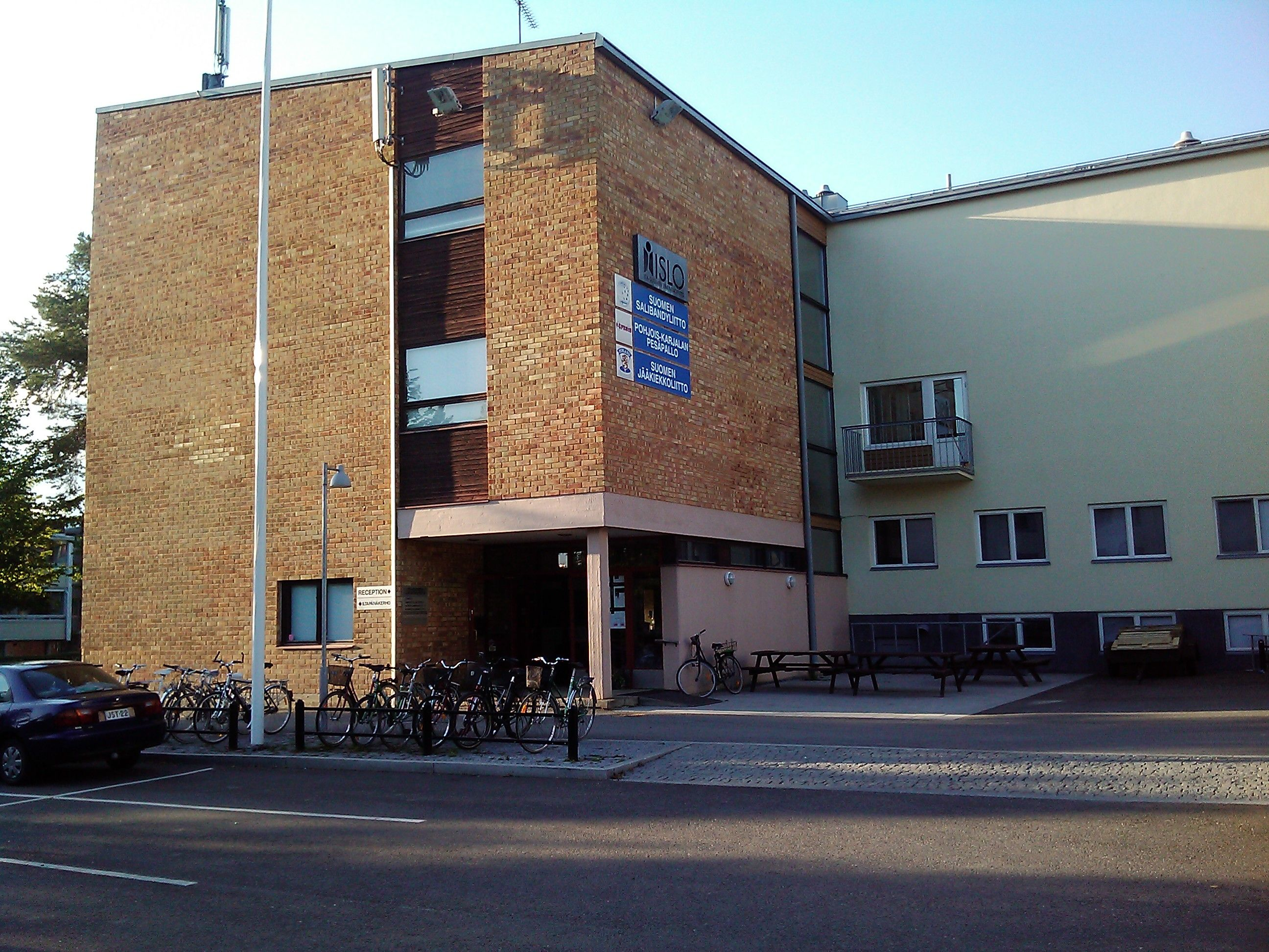 Eastern Finland Sports Institute in Joensuu